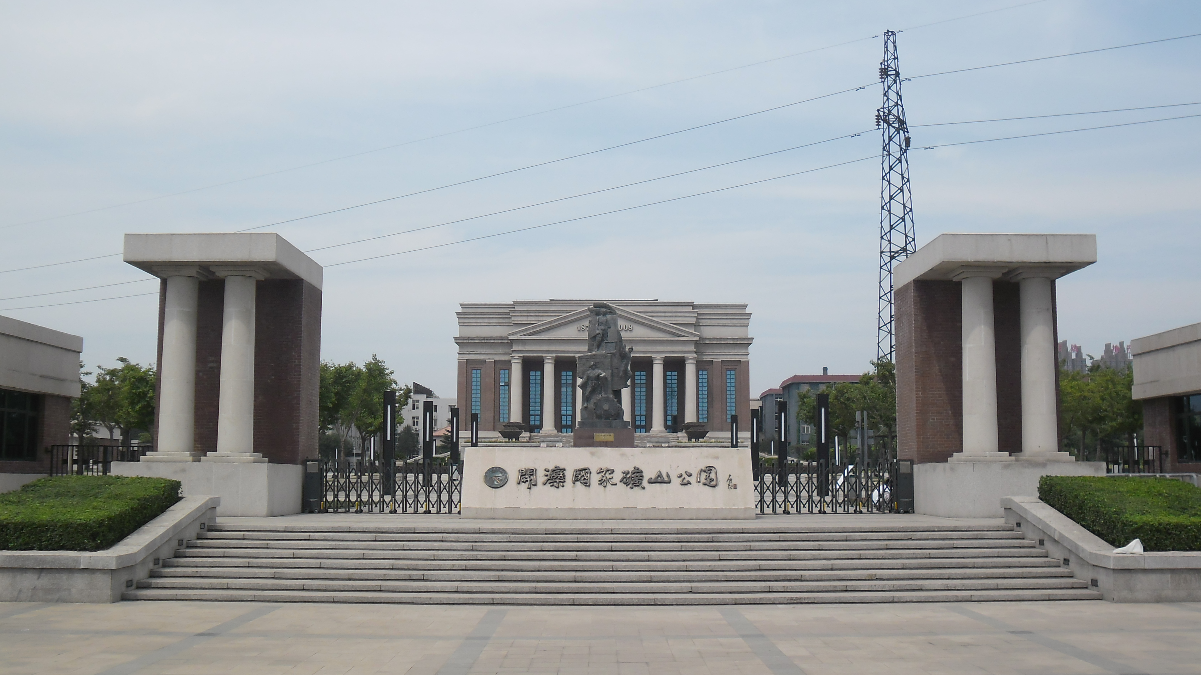 Kailuan National Mine Park, in Tangshan, Hebei